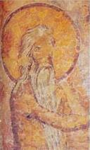 Icon of Onuphrius in Veljusa Monastery, Macedonia